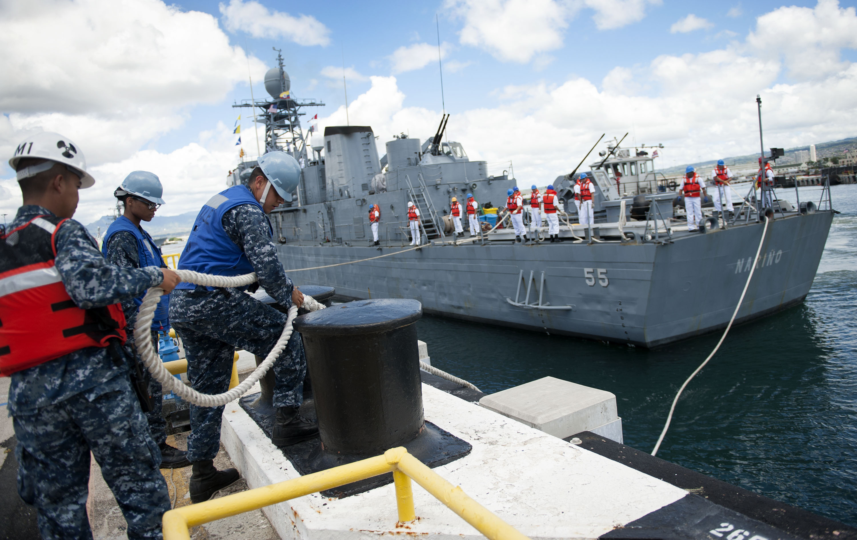 Sailors from Joint Base Pearl Harbor-Hickam handle mooring lines from the Colombian navy corvette ARC Narino (CM-55) during its arrival for a scheduled port visit. The ship's crew is scheduled to spend four days in port and to lay a wreath at the USS Arizona Memorial. (U.S. Navy photo by Mass Communication Specialist 2nd Class Tiarra Fulgham/Released)